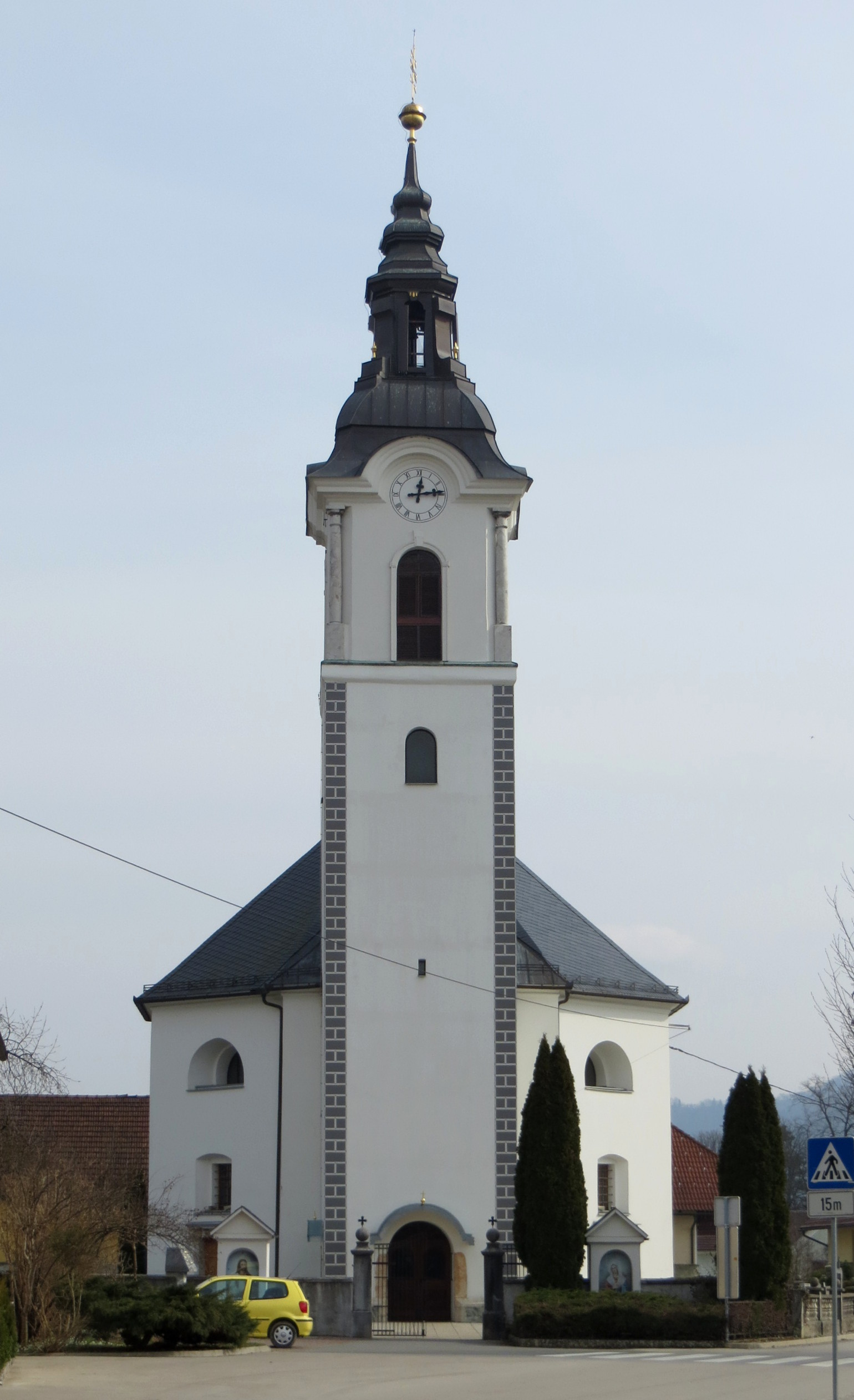 Saint Margaret's Church in Dol pri Ljubljani, Slovenia